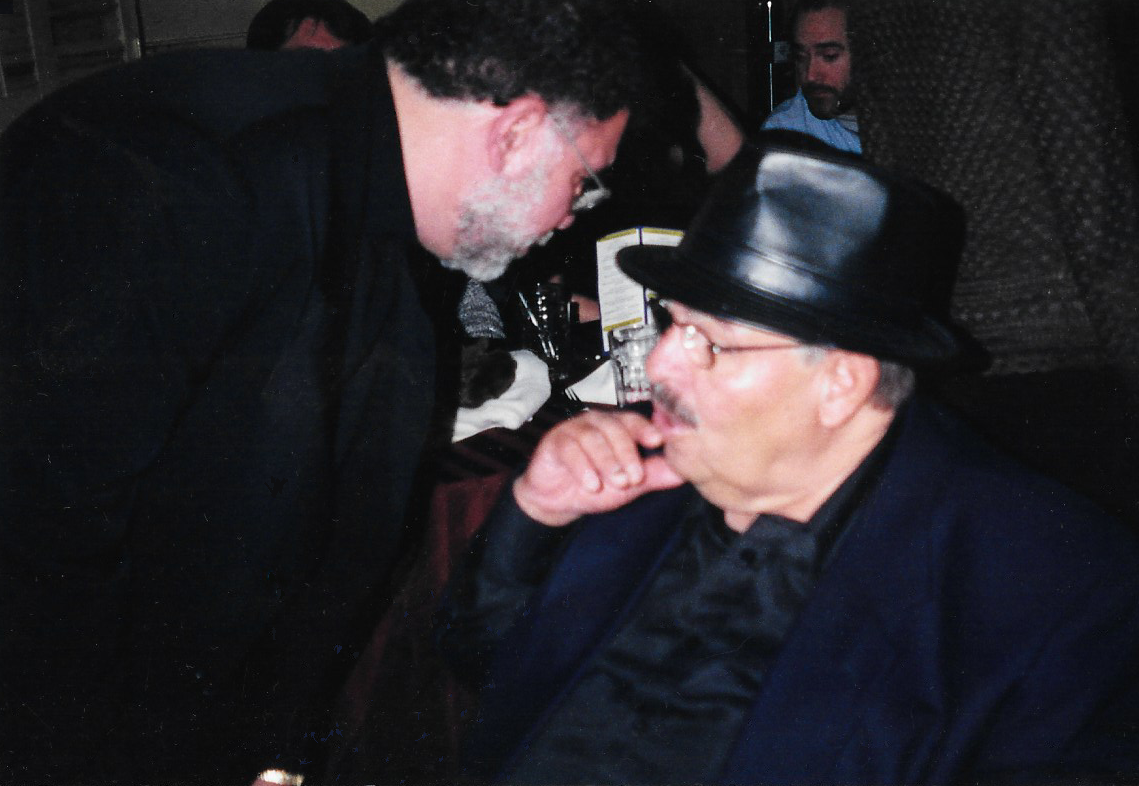 Yomo Toro, Puerto Rican cuatro player